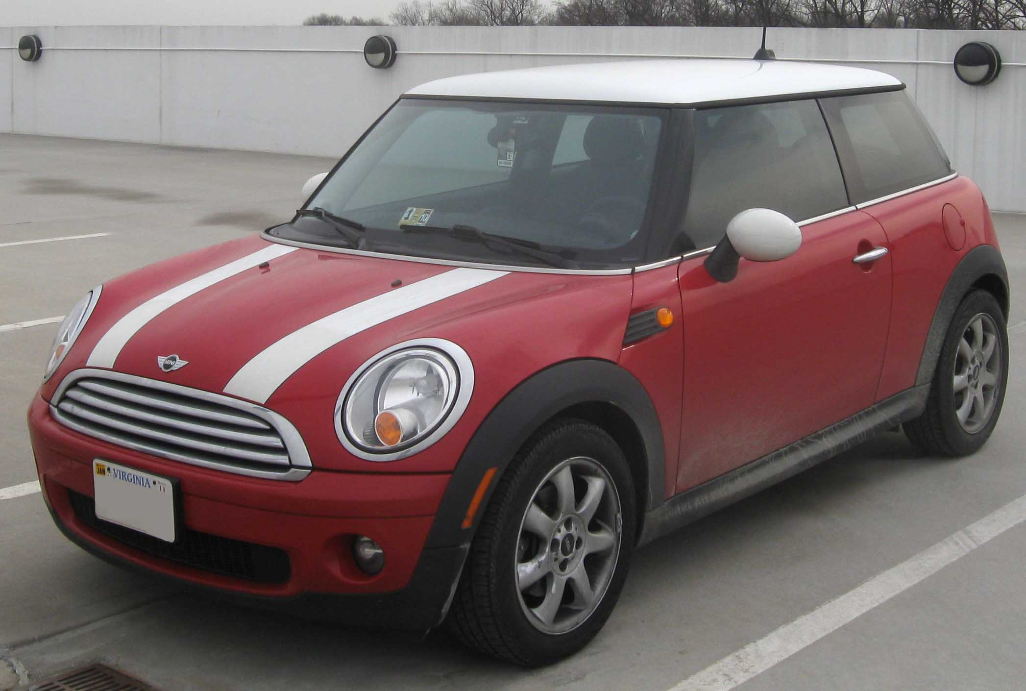 2007-2009 Mini Cooper photographed in College Park, Maryland, USA.